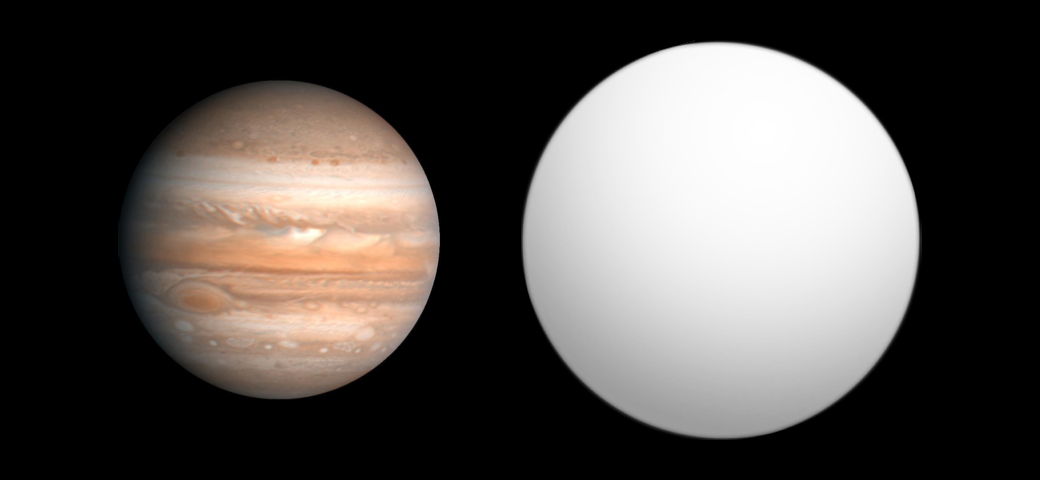 Comparison of best-fit size of the exoplanet HAT-P-24 b with the Solar System planet Jupiter, as reported in the Open Exoplanet Catalogue[1] as of 2010-09-30. ↑ Open Exoplanet Catalogue (2010-09-30). Retrieved on 2010-09-30.